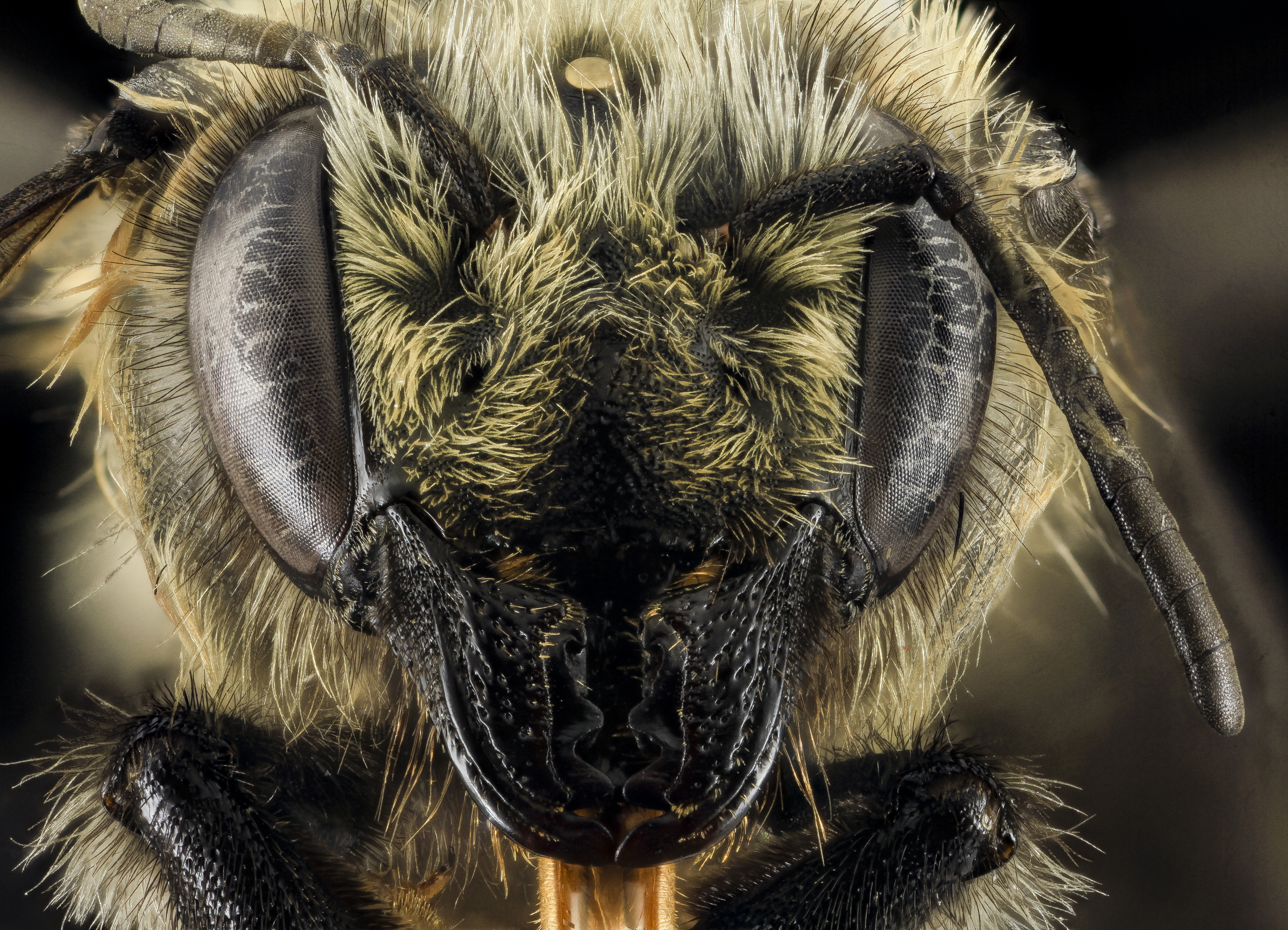 A northern leaf-utter. Note all the lovely cutting edges on the mandibles. Found at Pictured Rocks National Lakeshore on the Upper Peninsula of Michigan. Picture taken by Colby Francoeur. Canon Mark II 5D, Zerene Stacker, Stackshot Sled, 65mm Canon MP-E 1-5X macro lens, Twin Macro Flash in Styrofoam Cooler, F5.0, ISO 100, Shutter Speed 200, link to a .pdf of our set up is located in our profile